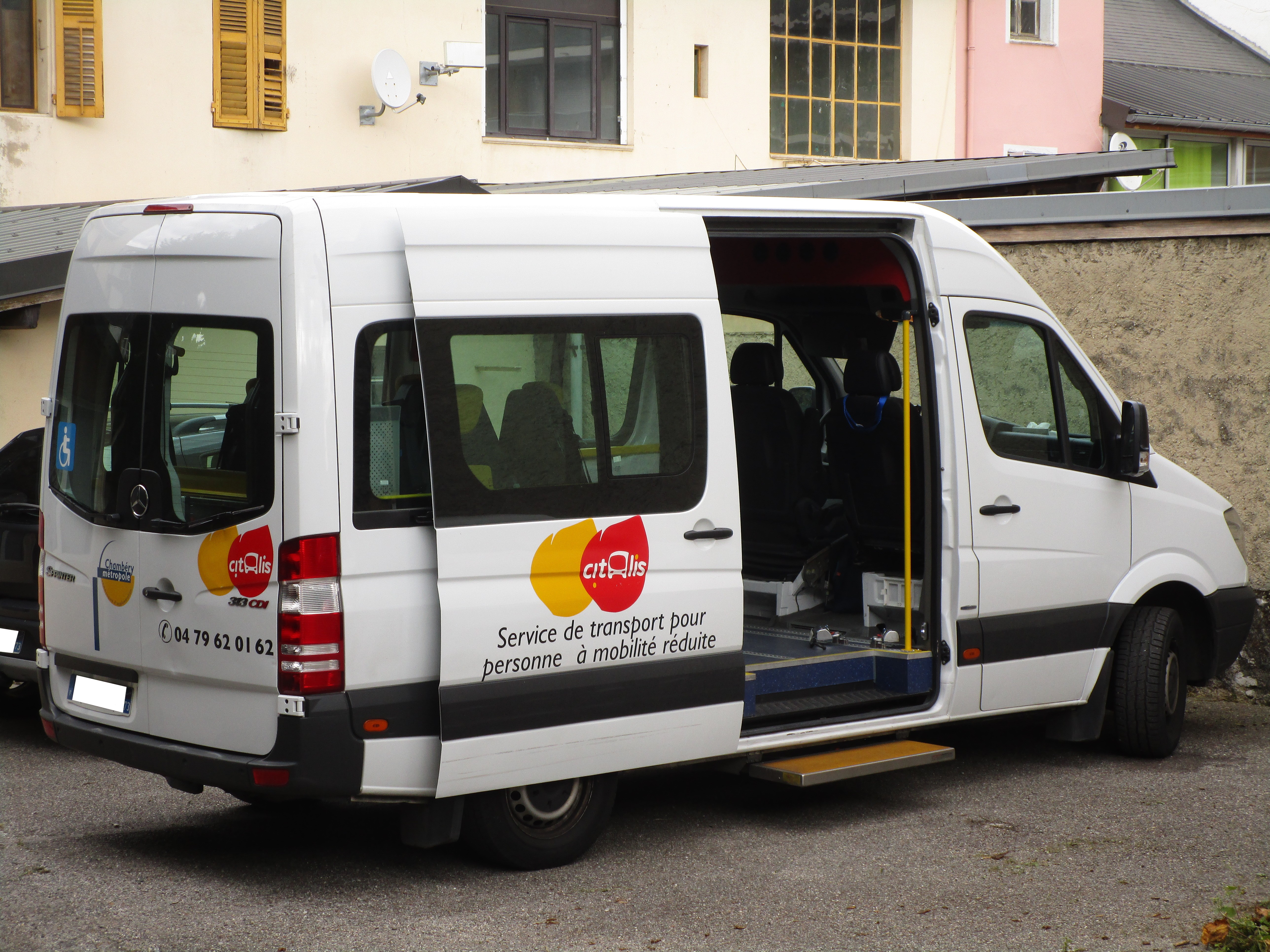 The Mercedes-Benz Sprinter n°257 of the Citalis unit (Stac network) in Challes-les-Eaux on October 20, 2016.